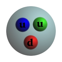 Quark structure of proton